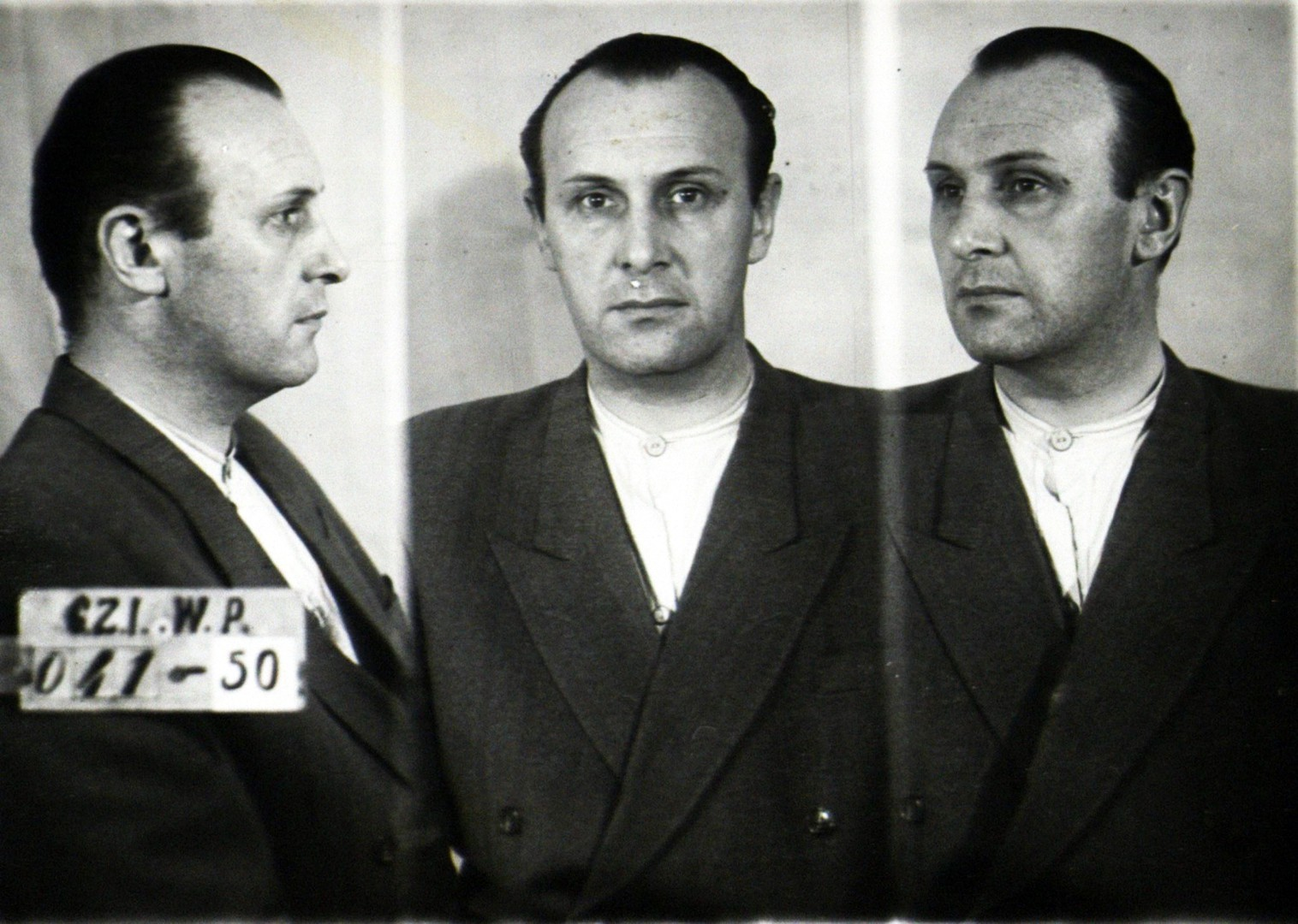 Zdzisław Barbasiewicz (1909-1952) - Colonel of the Polish Army, arrested and executed by communist authorities in Poland